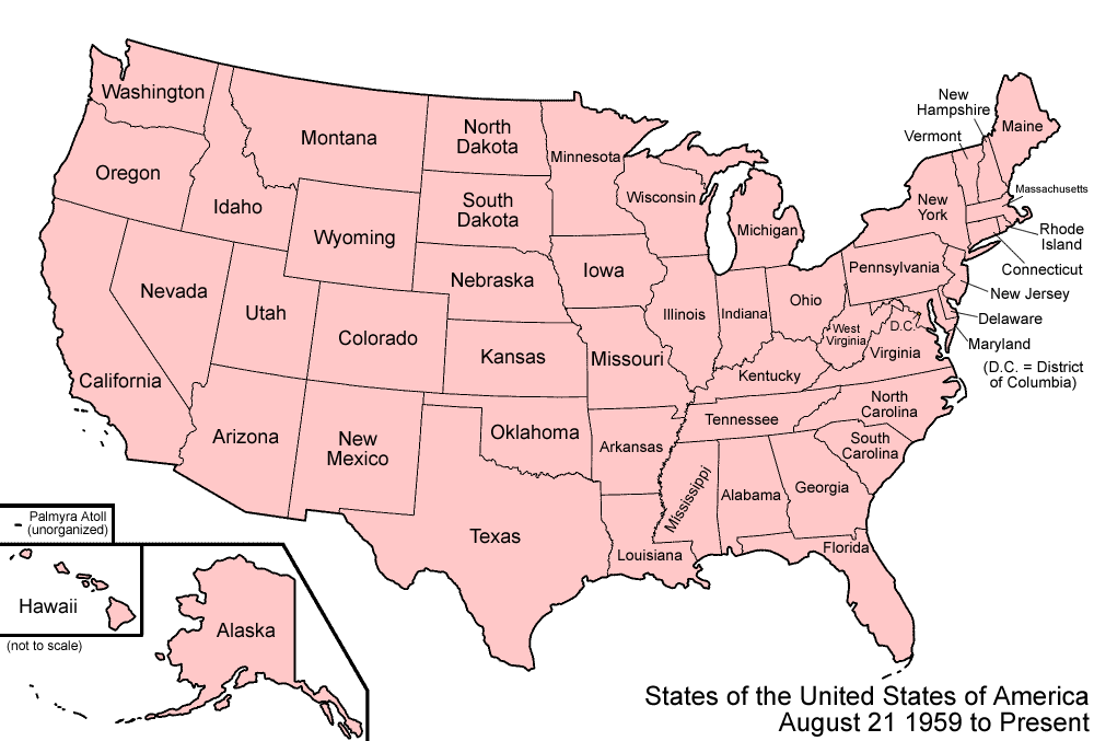 Map of the states and territories of the United States as it has been since August 21 1959, when Hawaii Territory was admitted as the state of Hawaii, completing the United States' present-day borders.